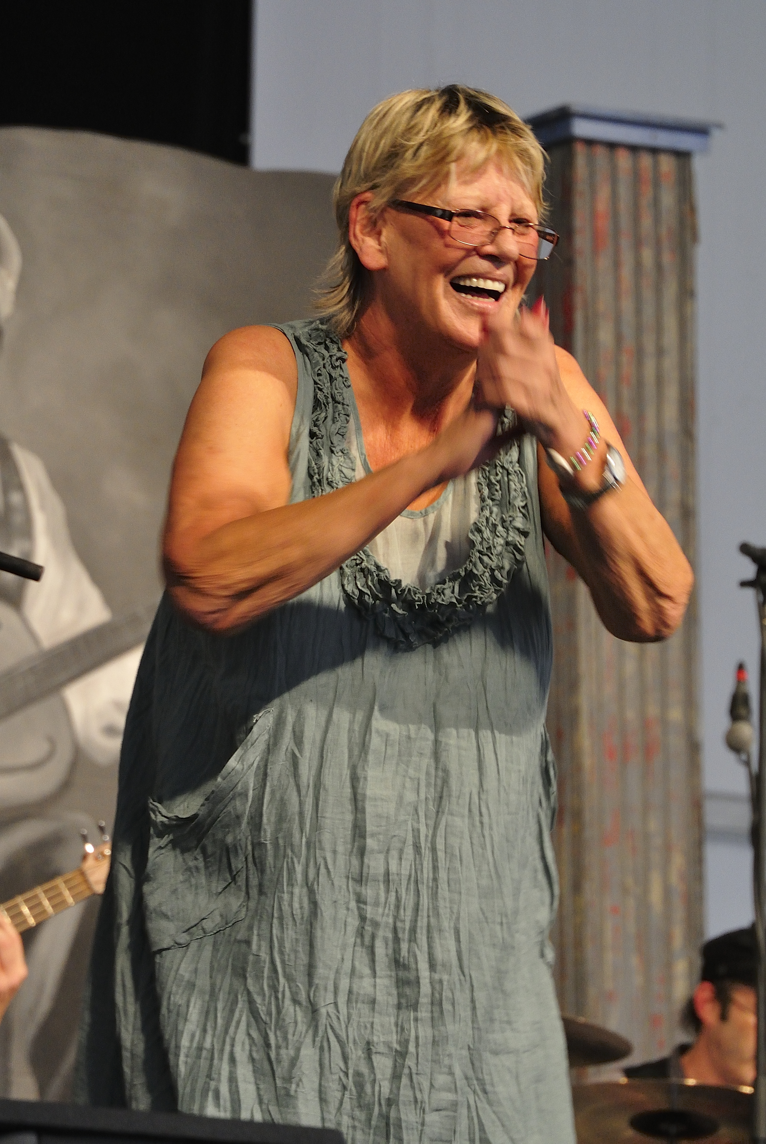 Chuck Leavell & Friends With Special Guests Bonnie Bramlett & Danny Barnes - New Orleans Jazz & Heritage Festival 2012